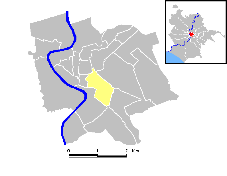 Locator maps of Rome (rioni)